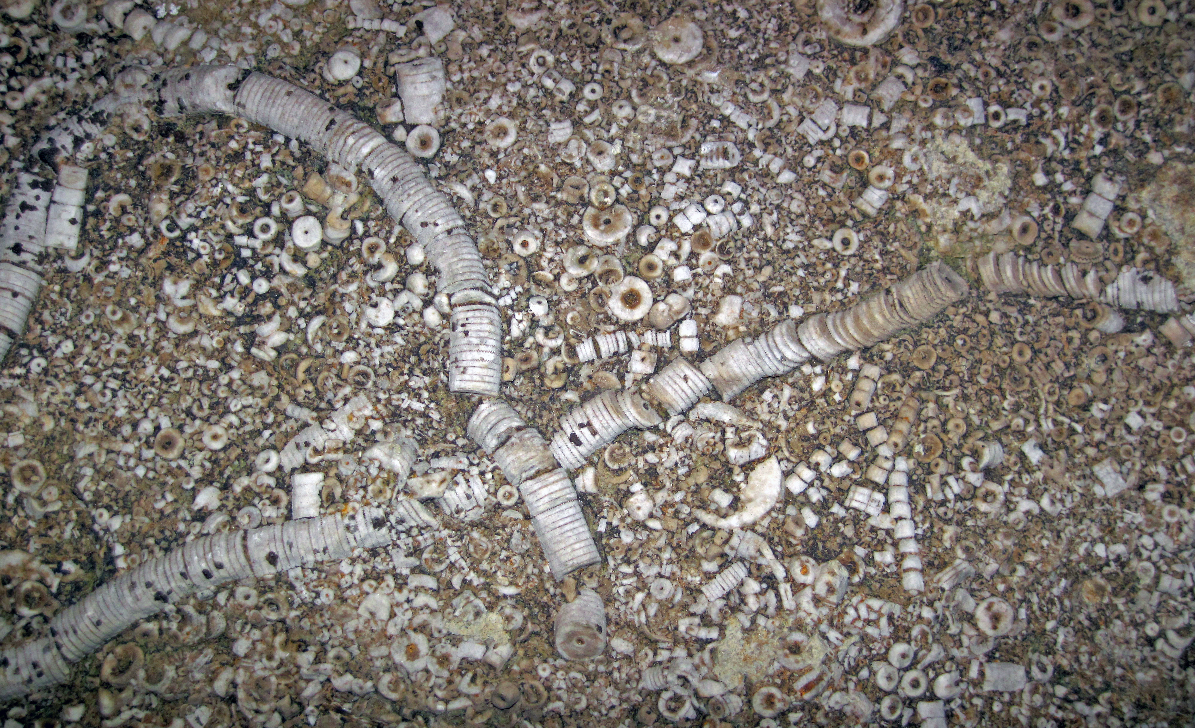 Encrinite from the Mississippian of Kentucky, USA. (field of view ~17.4 cm across) The Ft. Payne Formation of southern Kentucky is richly fossiliferous and is dominated by crinoids. Crinoids ("sea lilies") are sessile, benthic, filter-feeding, marine invertebrates that were abundant in Paleozoic oceans. The group nearly went extinct at the Permian-Triassic mass extinction 251 million years ago. Crinoids are not common in modern oceans - they are usually deep-water forms now, but some shallow-water forms also exist today. A crinoid is essentially a starfish on a stick. The stick, or stem, lifts the organism to a moderately high tier above the seafloor, which is conducive to non-competitive filter feeding. The flower-like "head" of the crinoid consists of numerous cemented calcite plates that surround the digestive system and other soft parts. The arms are feather-like and are the structures that engage in filter-feeding. In the fossil record, crinoid stems are common, whereas crinoid heads are uncommon to rare, because they disaggregate quickly after death. Individual pieces of a crinoid stem are called columnals - they are usually somewhat shaped like poker chips. Each columnal is composed of a single crystal of calcite (CaCO3 - calcium carbonate). The limestone shown above is almost entirely composed of crinoid columnals. Such crinoidal limestones are called "encrinites". Classification: Animalia, Echinodermata, Crinoidea Stratigraphy: Ft. Payne Formation, Osagean Stage, upper Lower Mississippian Locality: lakeside outcrop, Lake Cumberland, southern Kentucky, USA